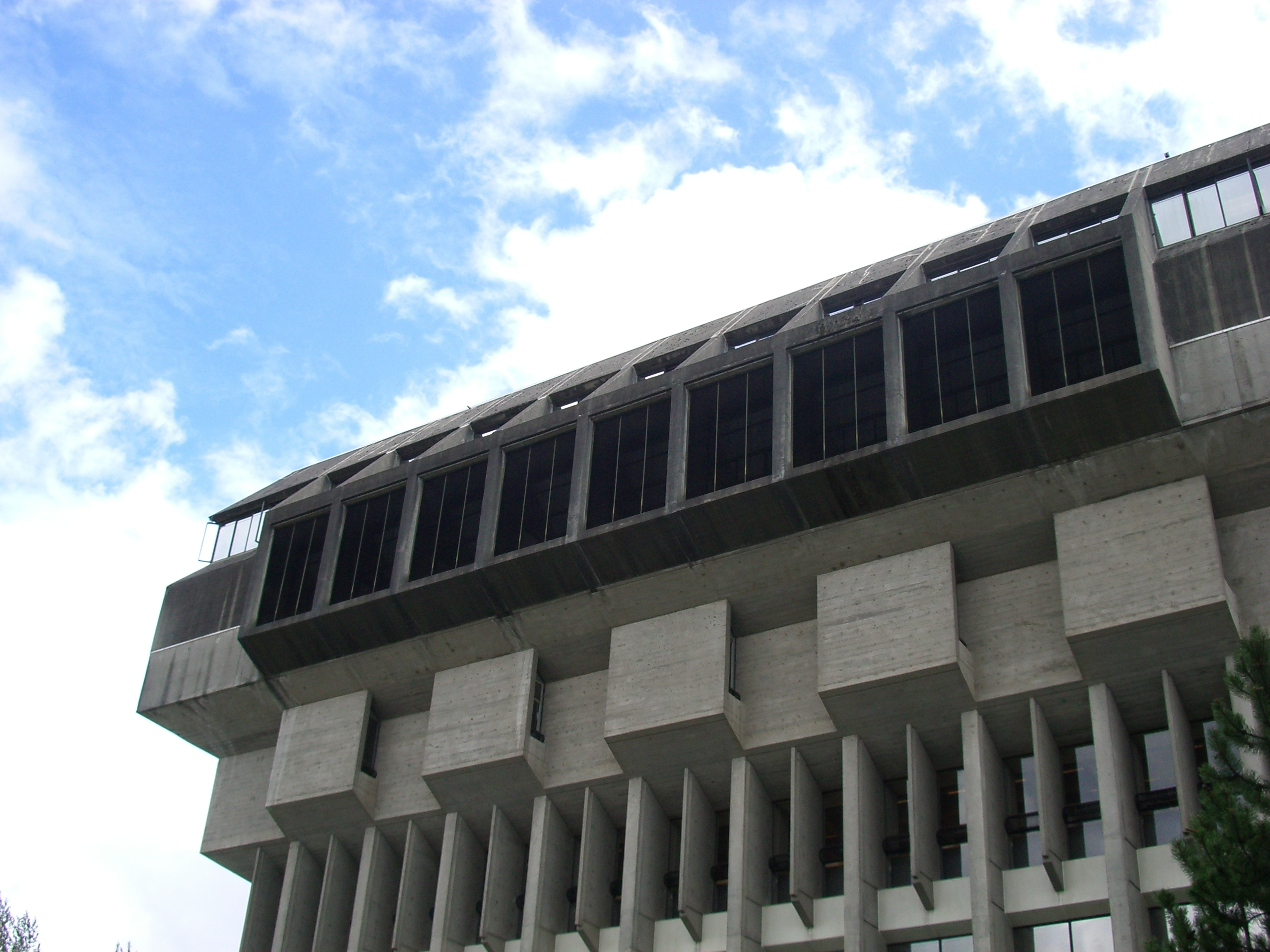 The W.A.C. Bennett Library at Simon Fraser University in Burnaby, Canada.